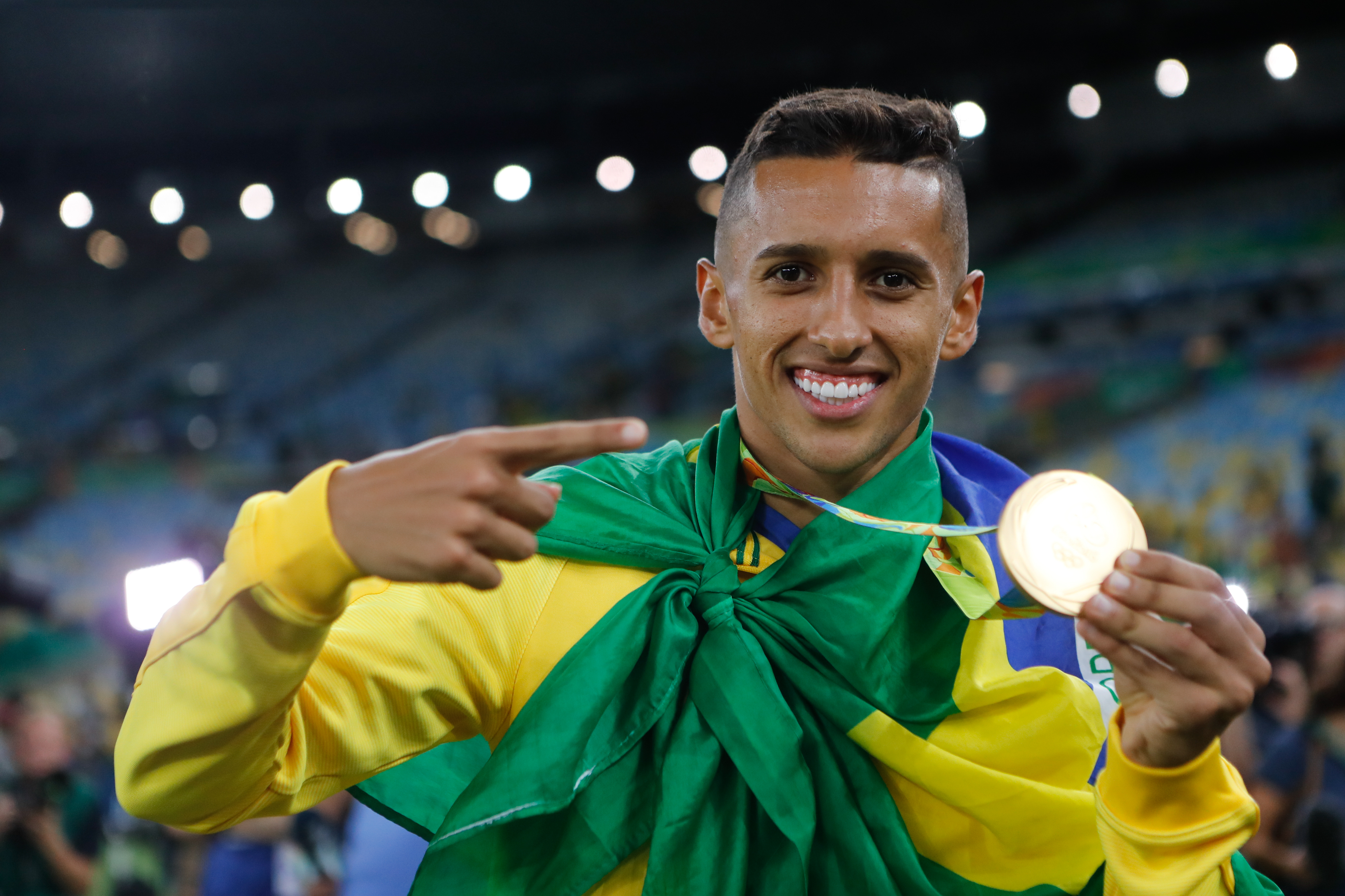 Rio de Janeiro - Brasil vence Alemanha e conquista primeiro ouro olímpico do futebol (Fernando Frazão/Agência Brasil)